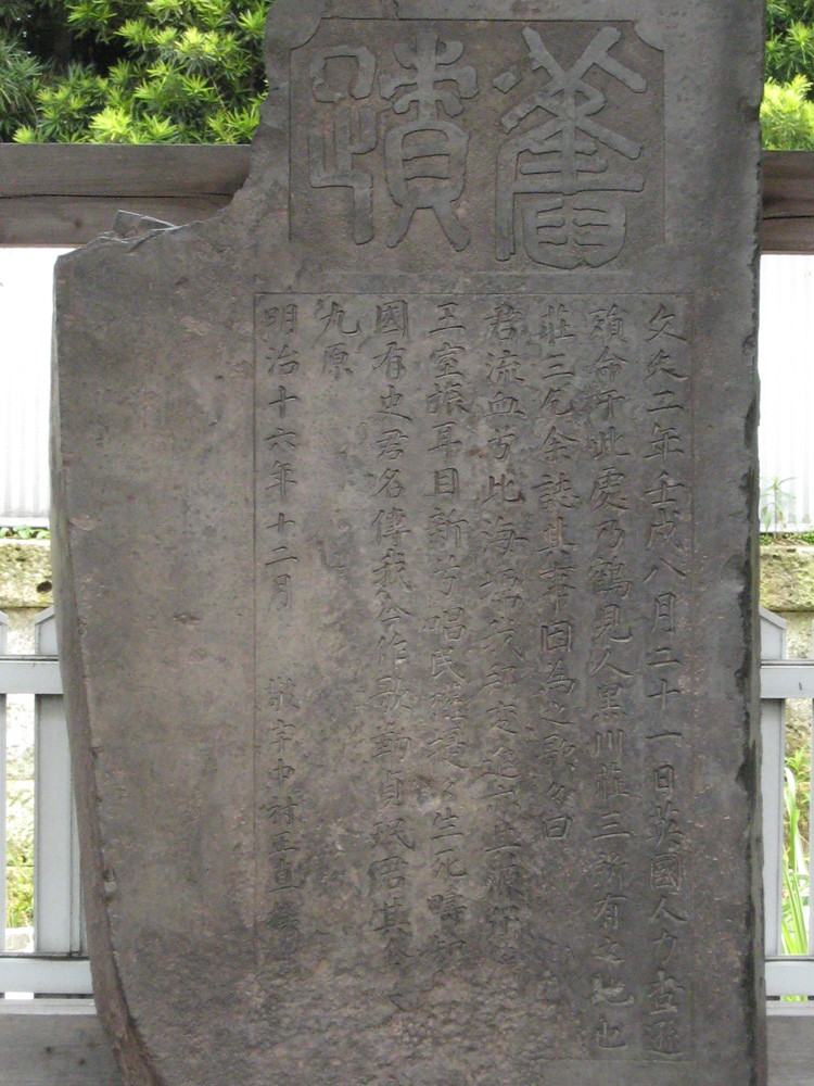 Historical monument of Namamugi jiken (Namamugi Incident) Yokohama. Japan